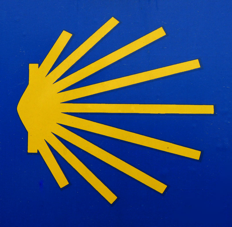 The Scallop shell is the symbol of several Ways of St. James.